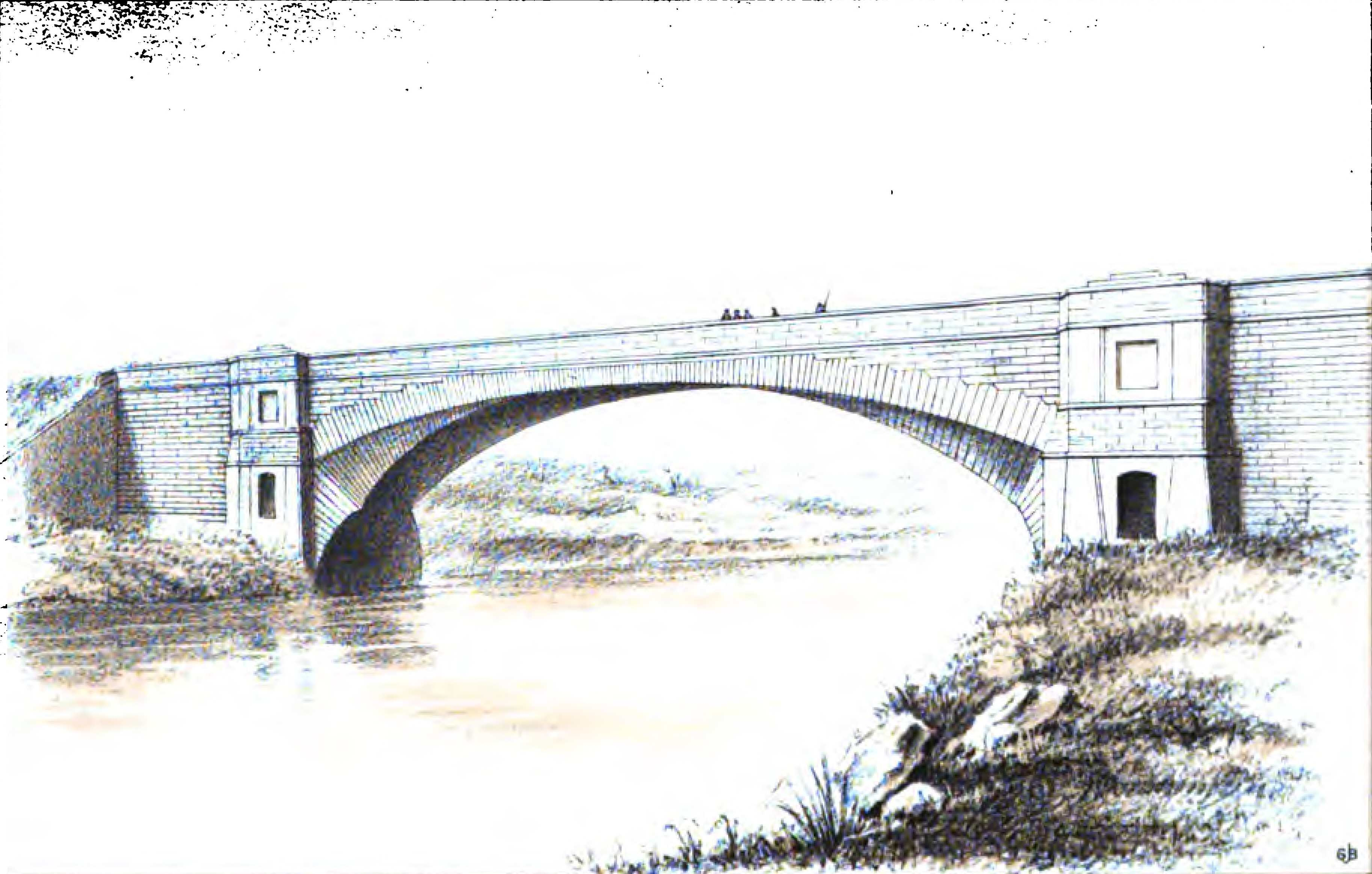 Telford's Bridge, Gloucester (Over Bridge). Engraving by George J. Stodart